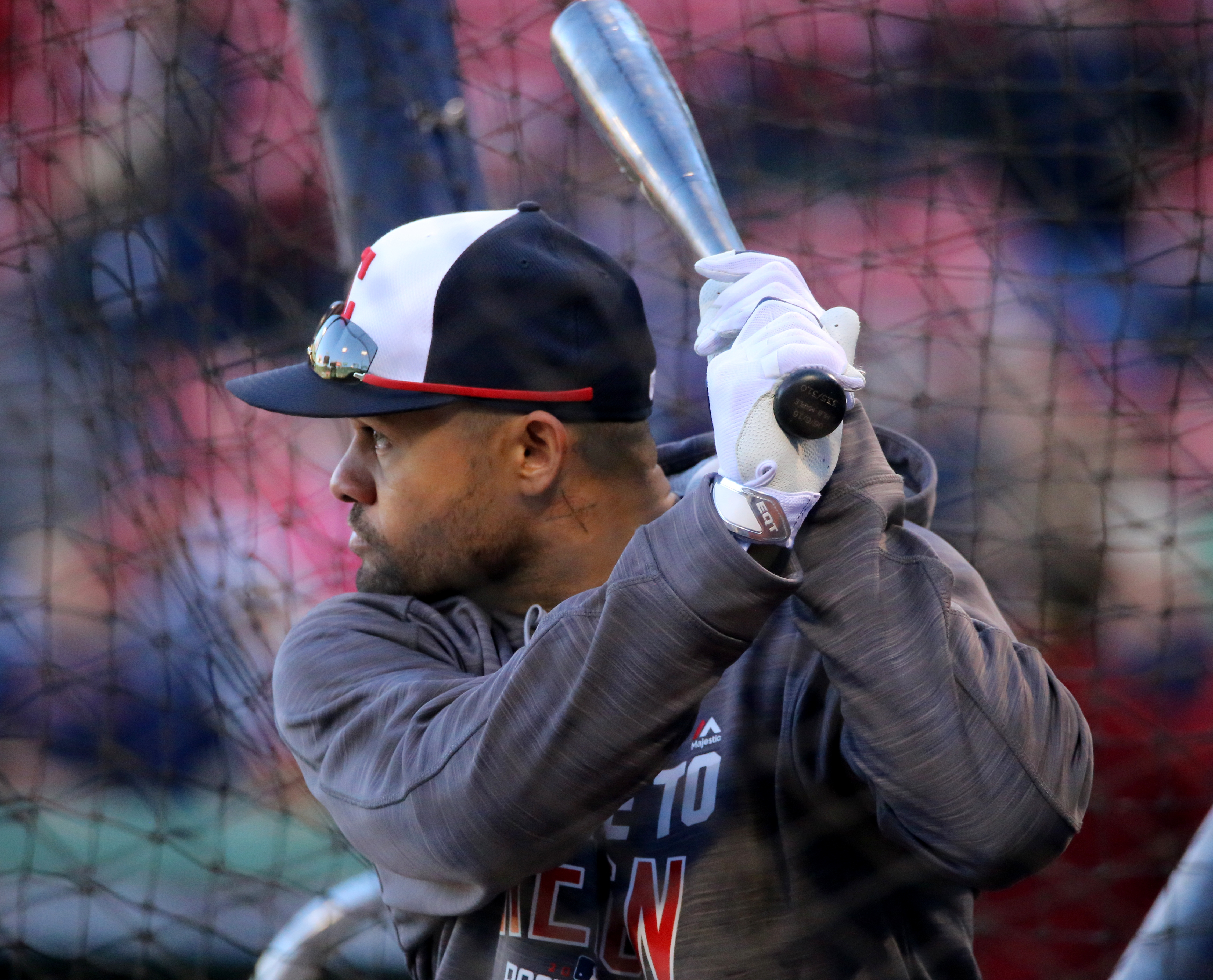 Indians outfielder Coco Crisp takes batting practice before Game 3 of the ALDS.